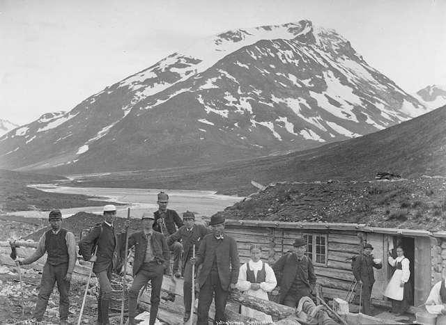 Spiterstulen